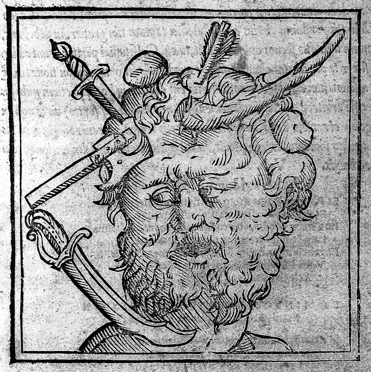 Title page, injuries caused by weapons Rare Books Keywords: anatomy, 16th century; pathology, 16th century; physiology, 16th century; Jacobus Carpensis Berengarius